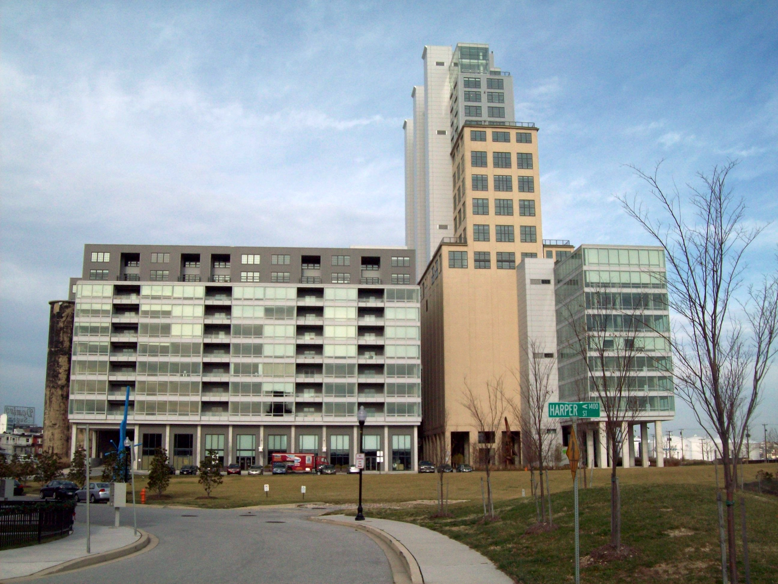 Silo Point from Harper Street